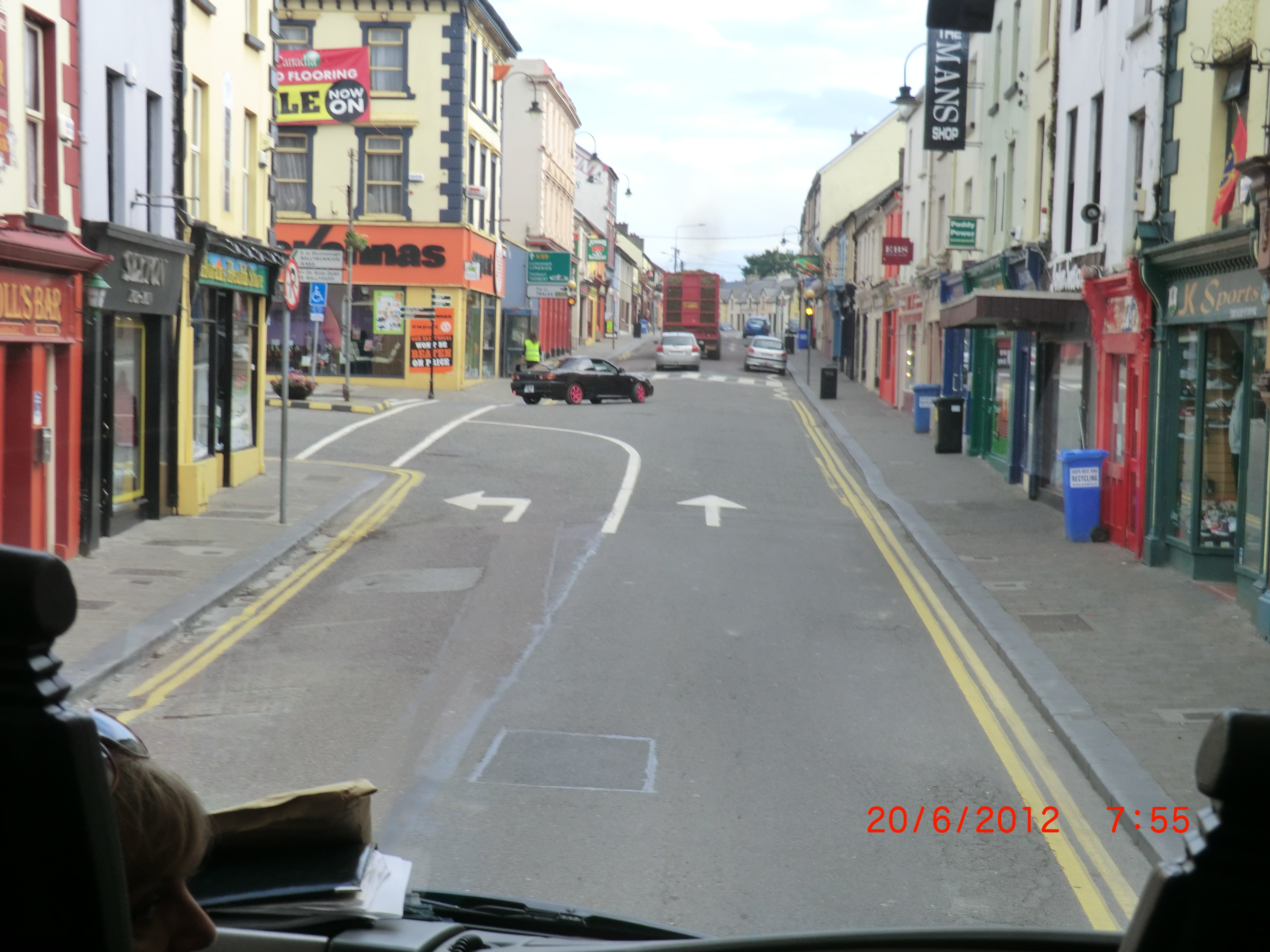 Main Street of Listowel